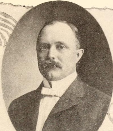 Portrait of New York assemblyman S. Percy Hooker